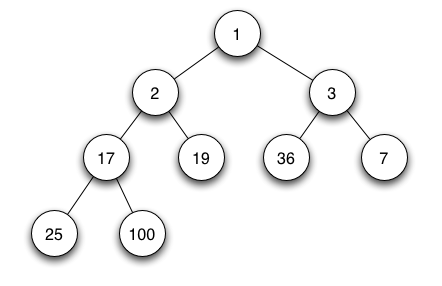 Illustration of a Complete Binary Min Heap. Created by Onar Vikingstad 2005. Released to public domain